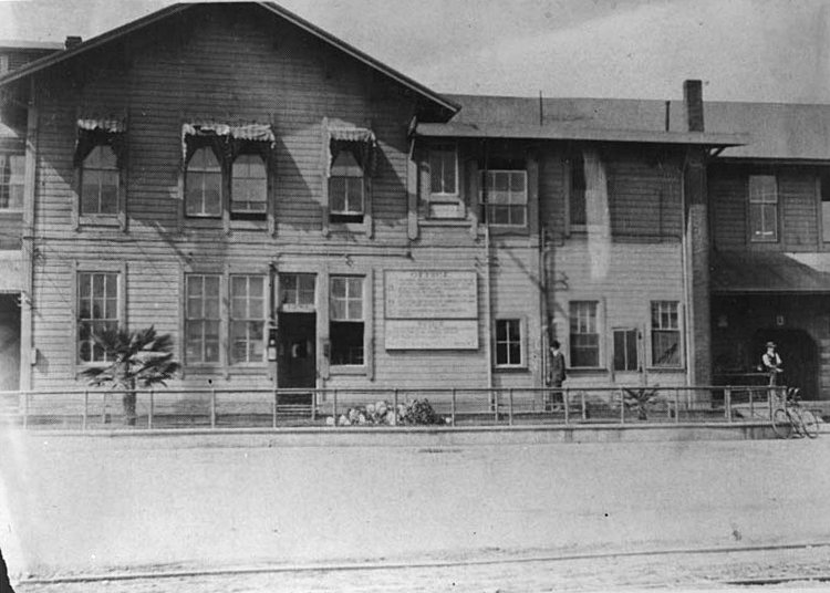 Exterior view of the first River Station — on San Fernando Road north of Chinatown in Los Angeles (before 1901). Built by the Southern Pacific Railroad in 1876, and used until 1887 when it was demolished for the new second River Station of brick on the site. It's site is the present day Cornfield area of Los Angeles State Historic Park The two-story wooden station had both women's and men's waiting rooms, and later had a hotel and restaurants were added to it. It was the main Southern Pacific L.A. passenger station, until the Arcade Depot was completed in 1888, in eastern Downtown Los Angeles.